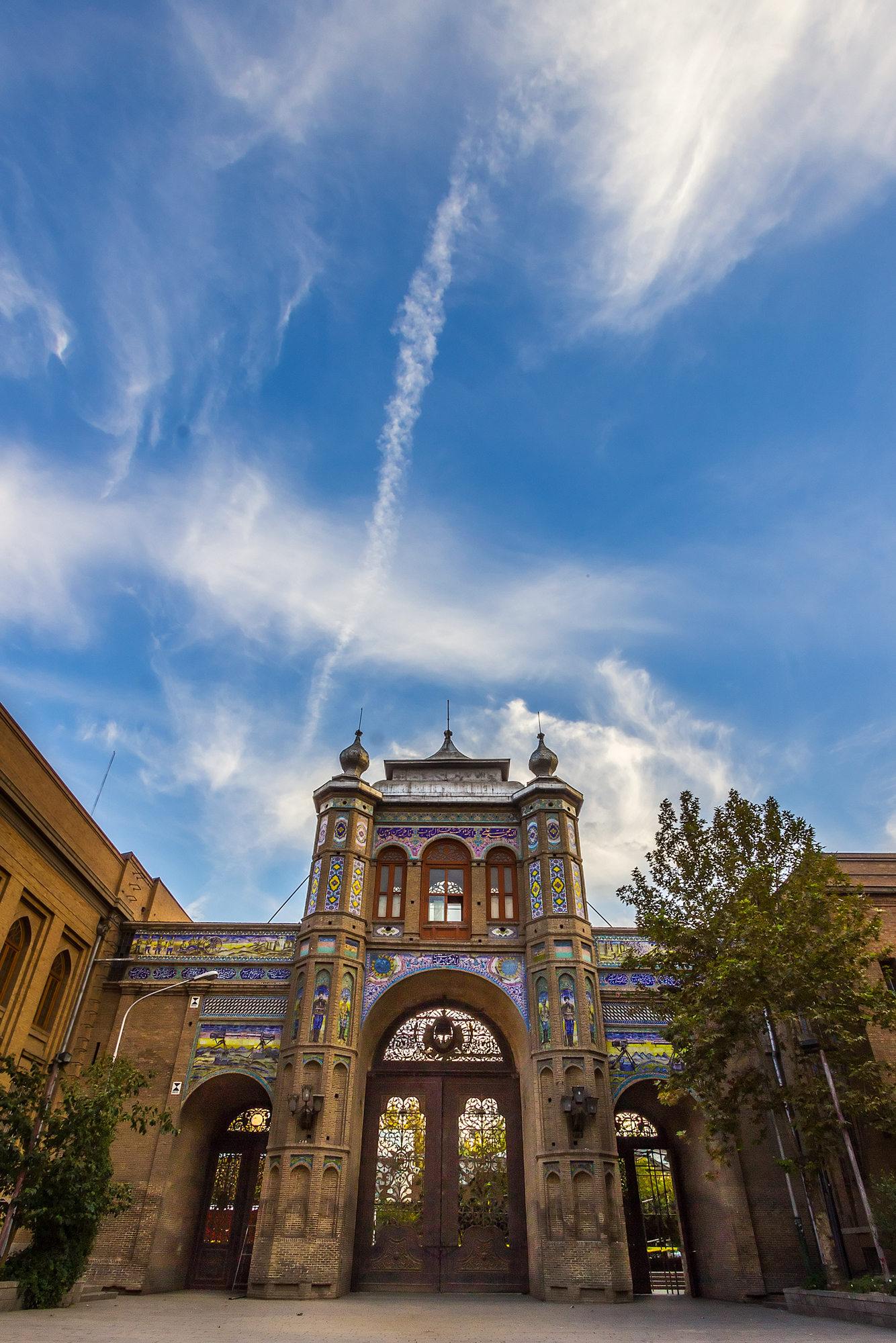 The National Garden of Tehran